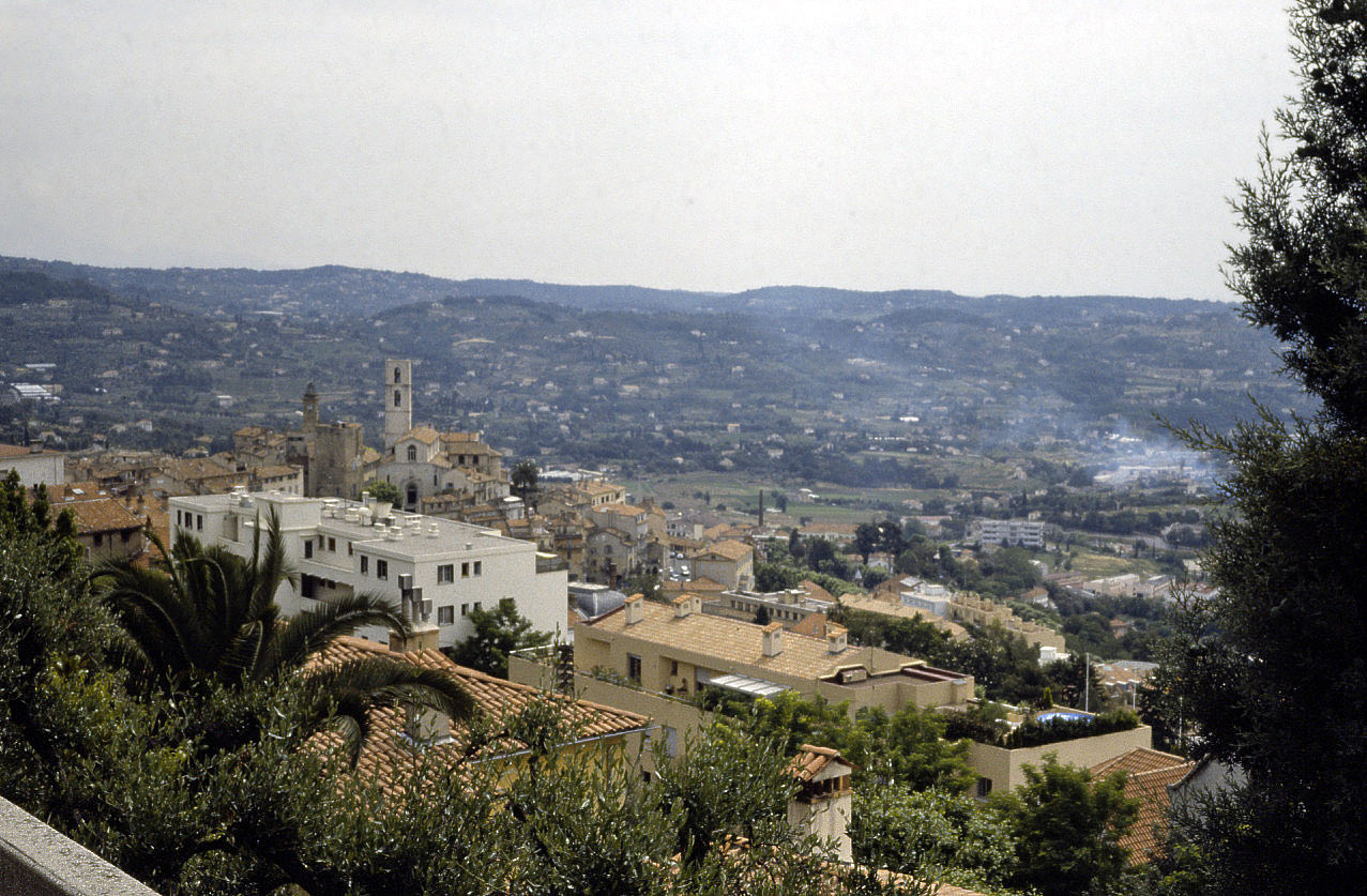 Grasse, view from above